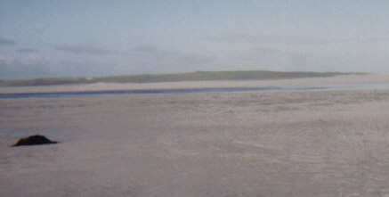 Vallay Island, or Eilean Bhalaigh, is a now-uninhabited island by the northwest coast of North Uist (Uibhist a Tuath), Outer Hebrides. Here its southeast coast is seen from the beach at Solas, during a still low tide which is gradually coming in.